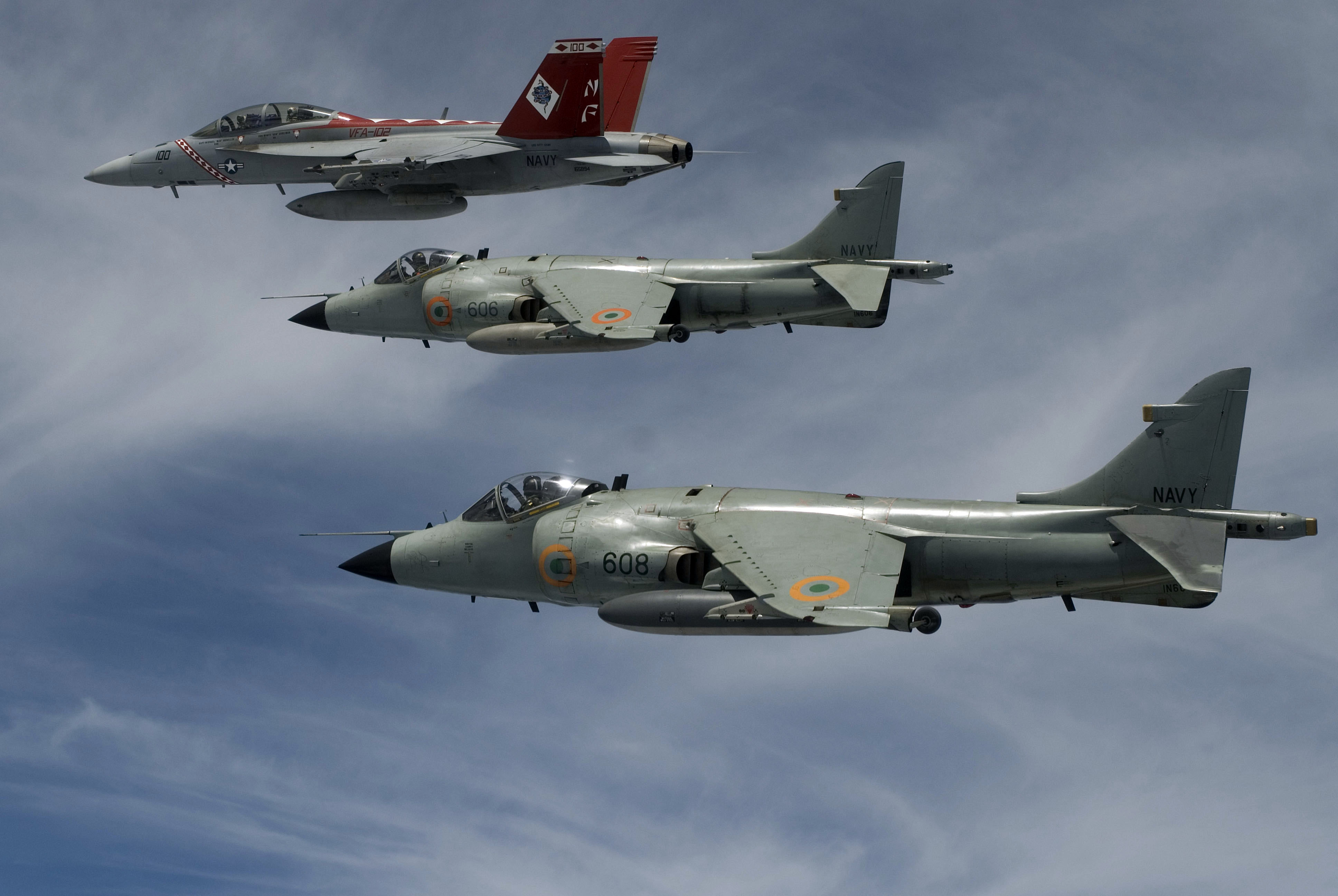 An F/A-18F Super Hornet assigned to the Strike Fighter Squadron 102, left, flies alongside Indian Navy Sea Harriers during exercise Malabar 07-2 in the Bay of Bengal.